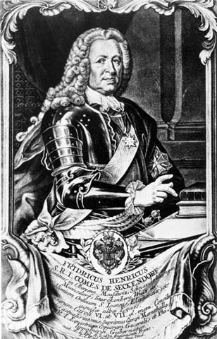 Friedrich Heinrich von Seckendorff (1673-1763), Austrian and saxon diplomat and officer